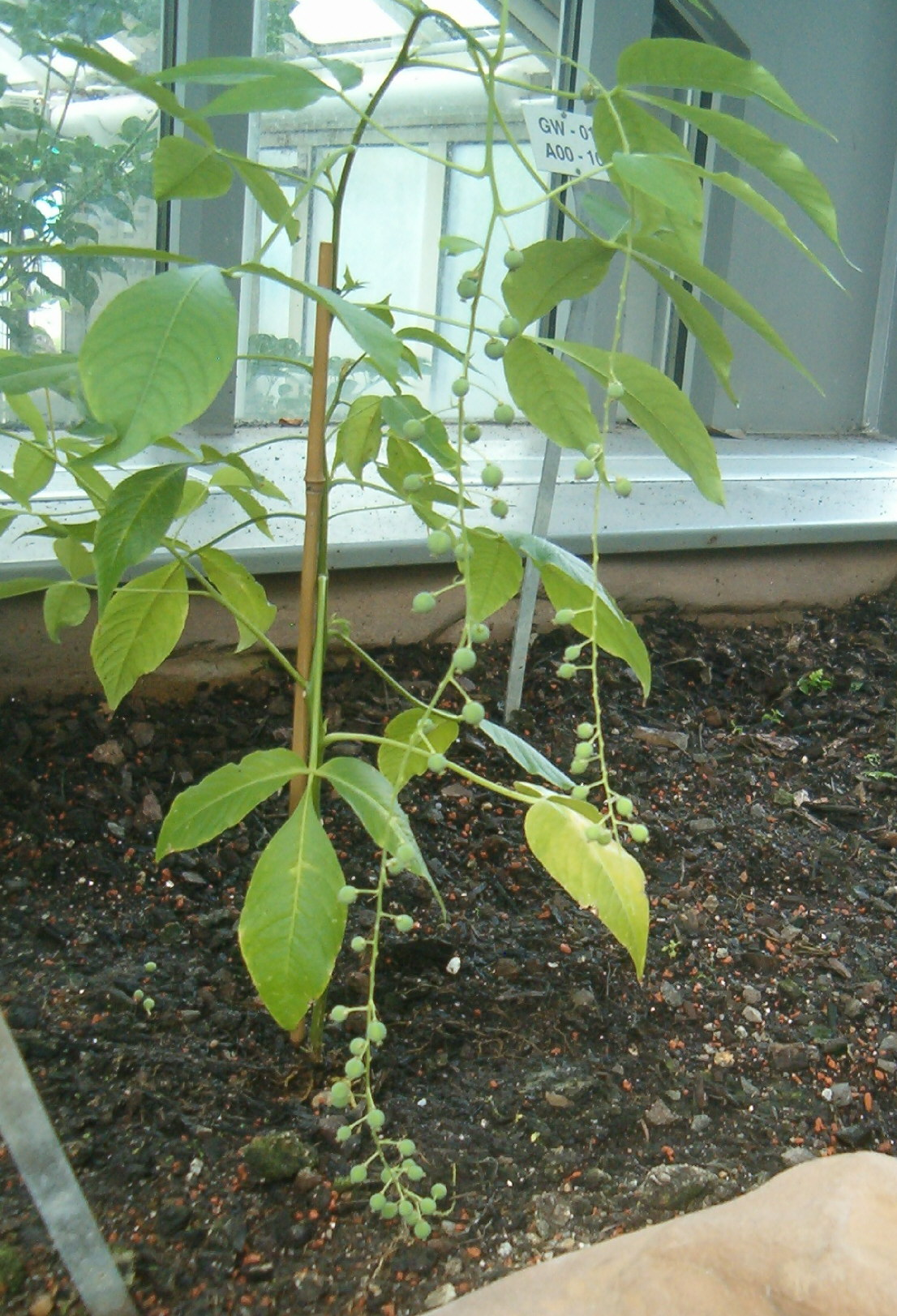 At Botanical Gardens Berlin-Dahlem Species Tovaria pendula